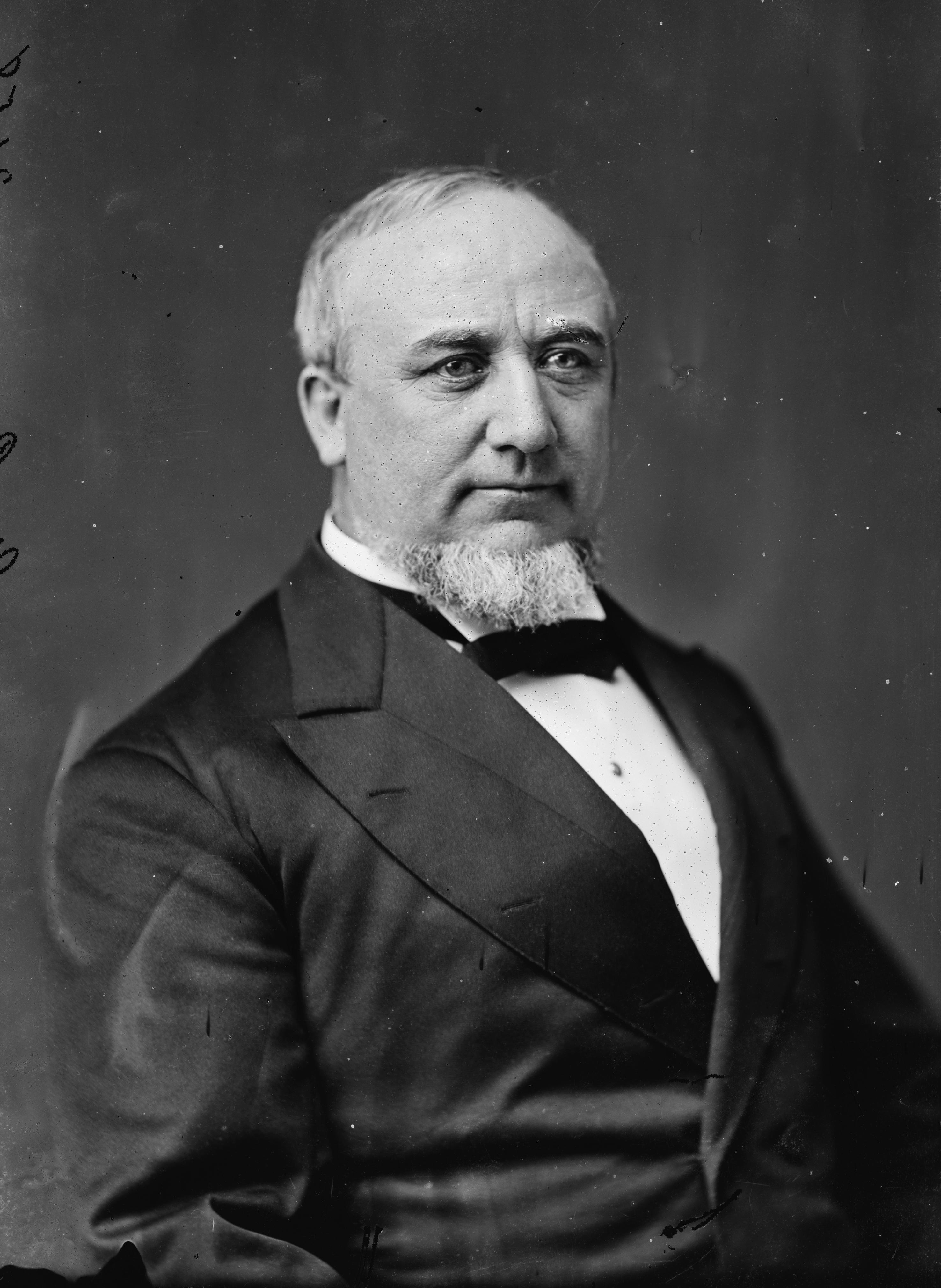 George Quayle Cannon ( January 11, 1827–April 21, 1901) (commonly known as George Q. Cannon) was an early member of the Quorum of the Twelve Apostles of The Church of Jesus Christ of Latter-day Saints, and served as counselors to four successive Presidents of the Church: Brigham Young, John Taylor, Wilford Woodruff, and Lorenzo Snow. He was the church's chief political strategist, and was dubbed "the Mormon premier" and "the Mormon Richelieu" by the press.